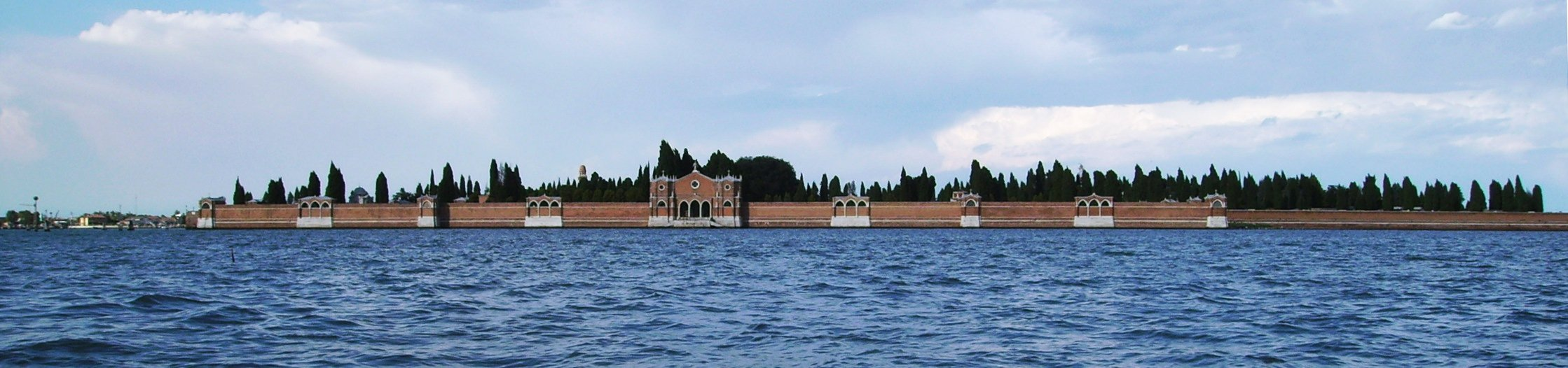 San Michele (Venice, Italy), view from southwest